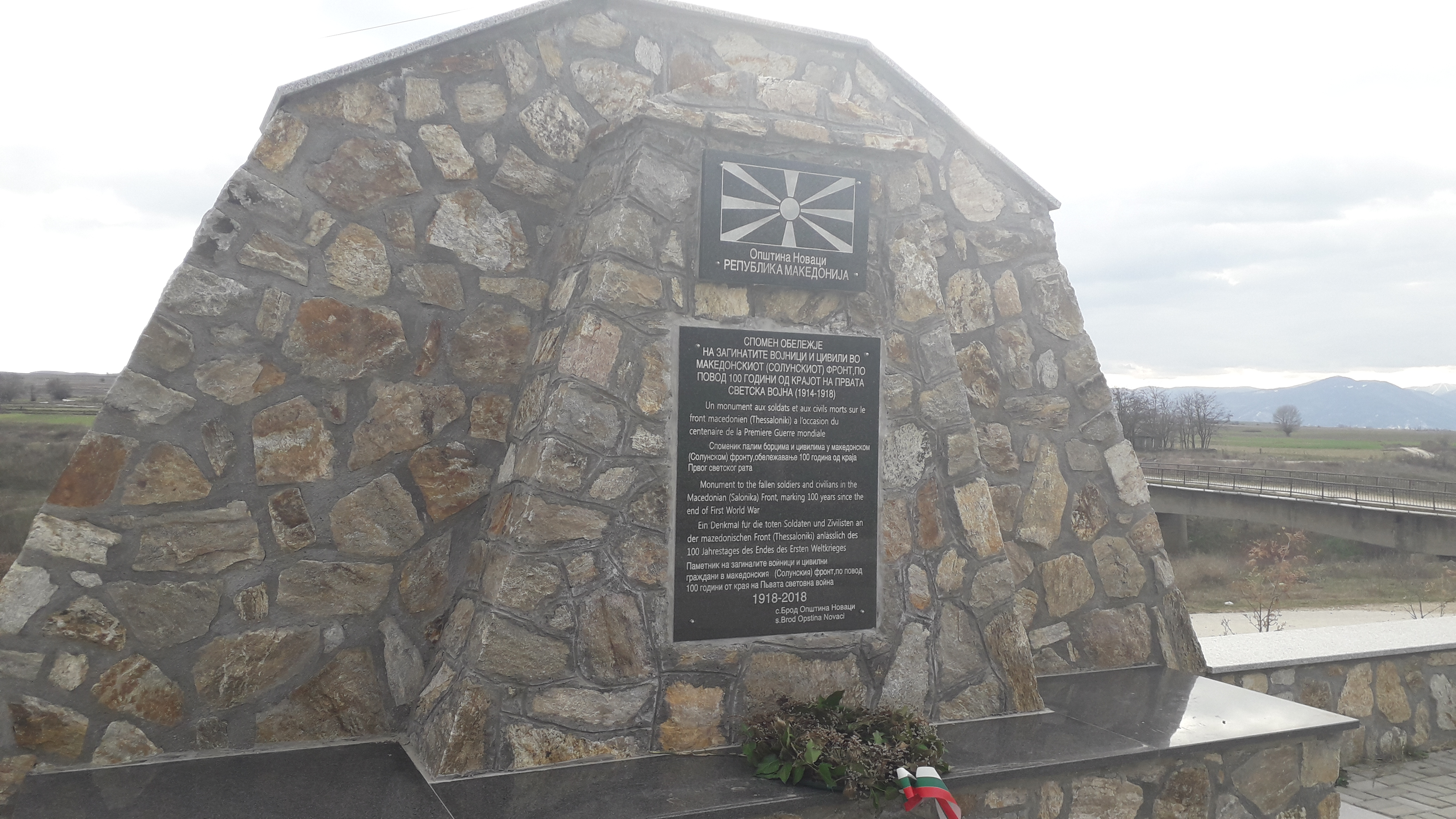 Brod, Novaci2